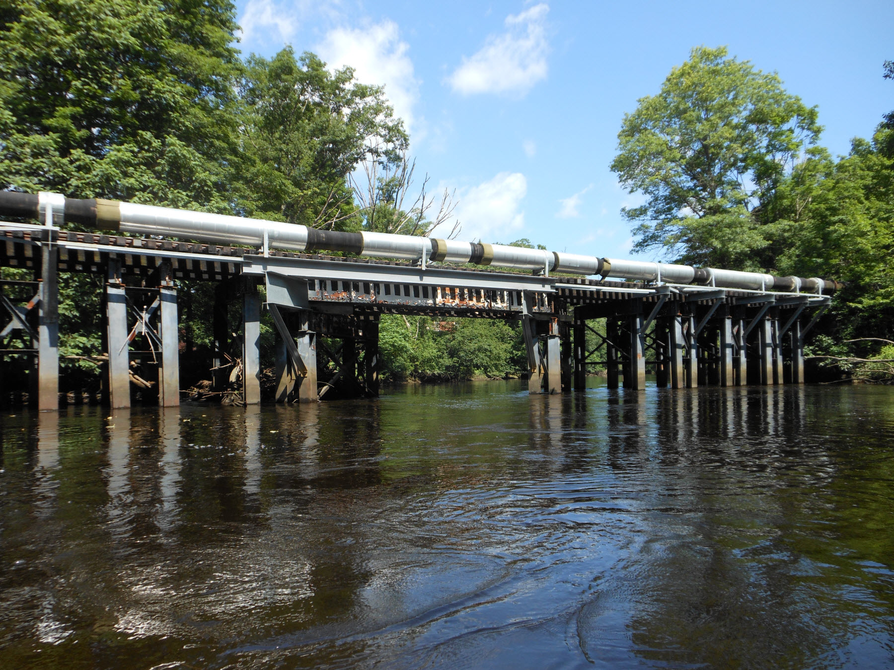 Railroad bridge over Taunton River. Near County Street, Taunton, Massachusetts.